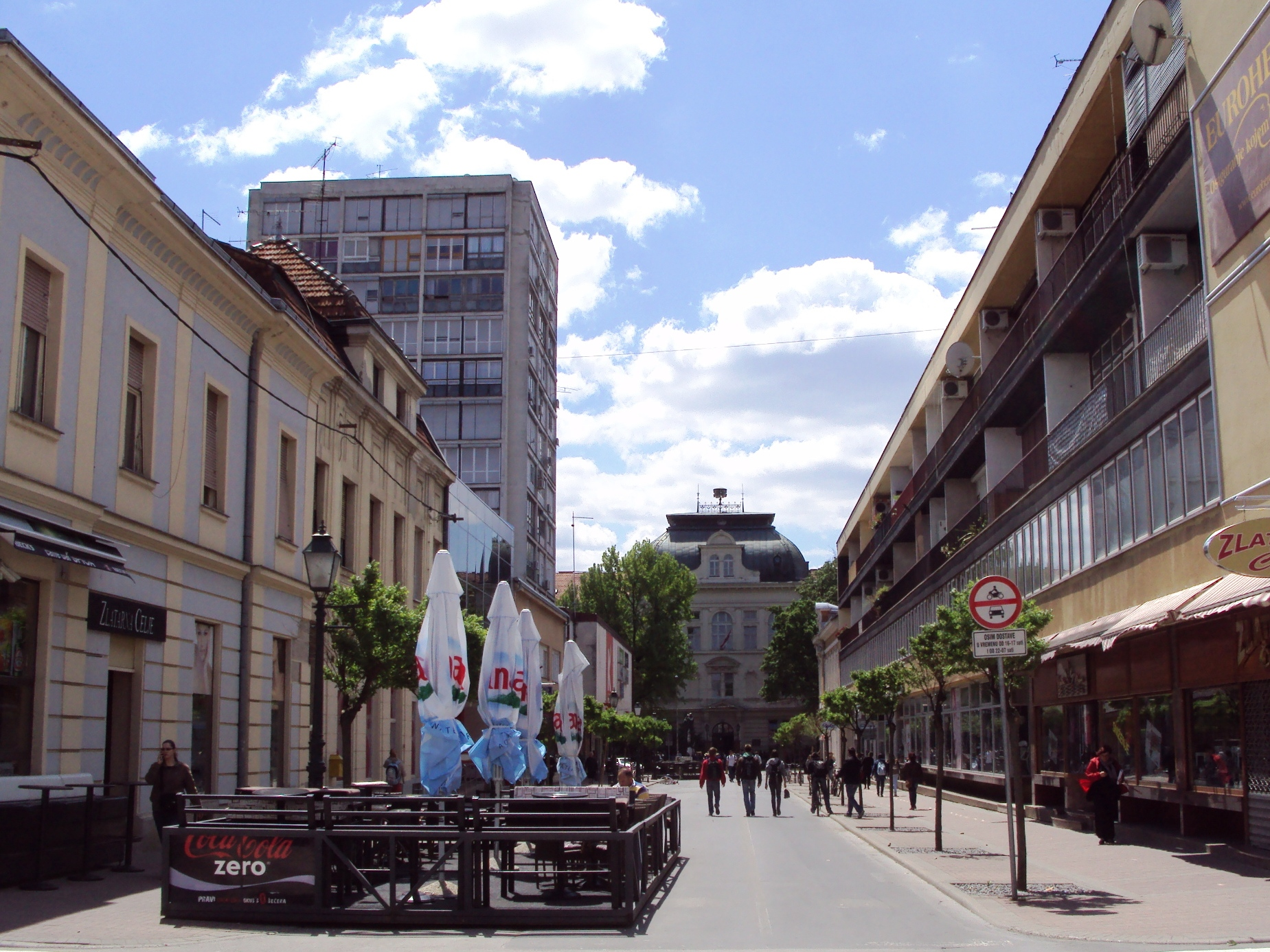 City of Bjelovar, Croatia.